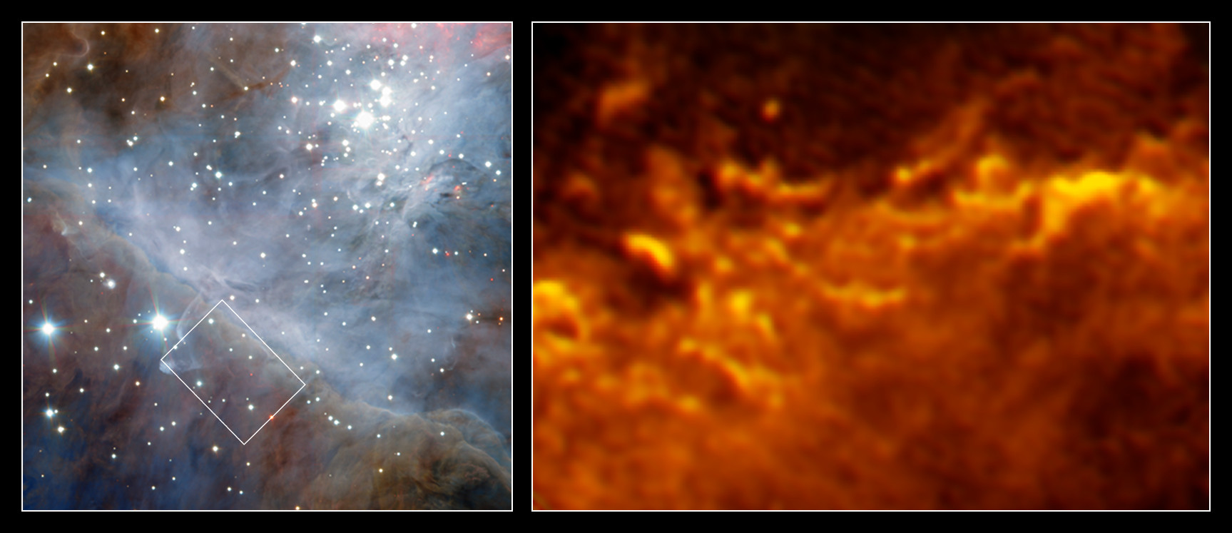 These images show the edge of the vast molecular cloud that lies behind the Orion Nebula, 1400 light-years from Earth. The image of the left shows a wide-field view of the region, as seen with the HAWK-I instrument, installed at the Very Large Telescope. A small region is highlighted with a white rectangle, and the rightmost image shows that region in stunning fiery detail, observed with the Atacama Large Millimeter/submillimeter Array (ALMA). As well as producing beautiful images, molecular clouds are of great interest to astronomers. The clouds are stellar nurseries and at their edge atoms react and form molecules by key astrochemical processes. With the ALMA observations scientists were able to resolve this transition from atomic to molecular gas at the border of the Orion molecular cloud. As Orion is the nearest massive star-forming region it is the ideal target to find out more about these astrochemical processes, and it also offers the possibility to study the interactions of newly formed stars with their surroundings in detail. Both observations show that this fascinating astrochemical transition from atomic to molecular gas happens in a highly dynamic environment. ALMA’s view of the nebula particularly resembles the dark clouds of a huge upcoming storm in Earth’s atmosphere.